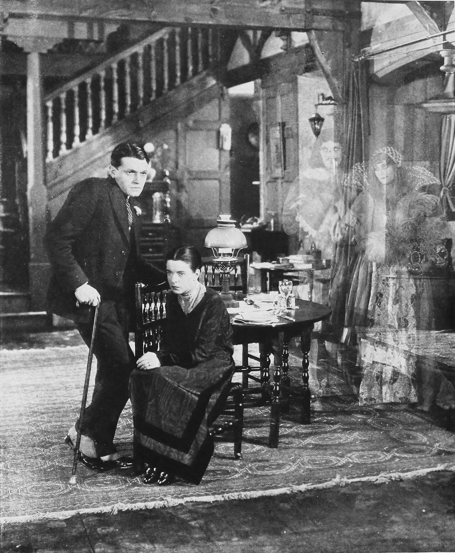 Still from The Enchanted Cottage (1924). The female ghost is played by Polly Archer, as revealed in Photoplay, October 1924.